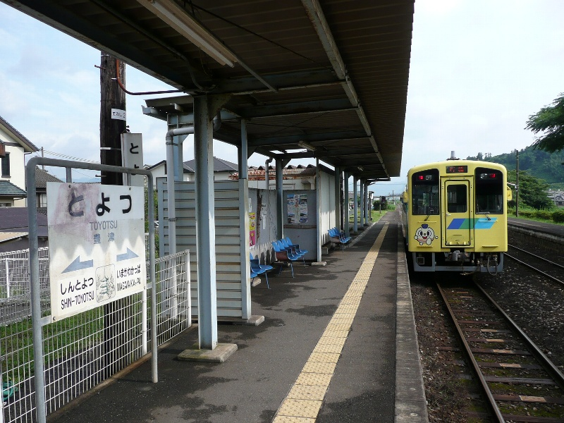 Heisei Chikuho Railway Toyotsu Station